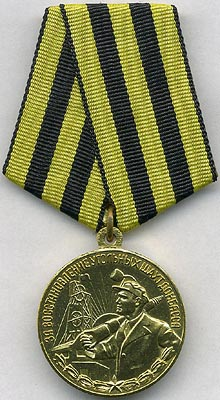 Soviet Medal For Restoration of the Donbass Coal Mines